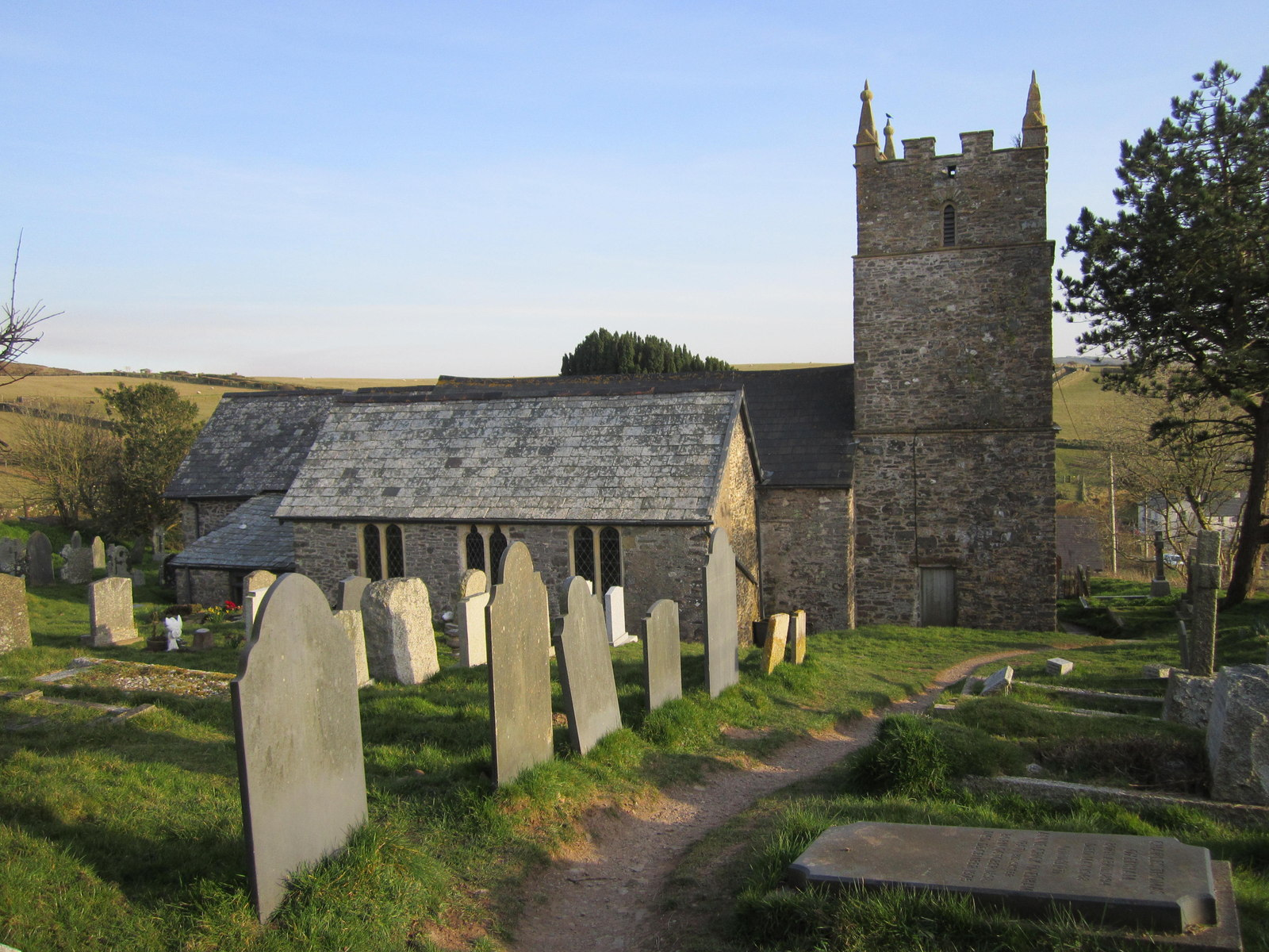 St John the Baptist Church